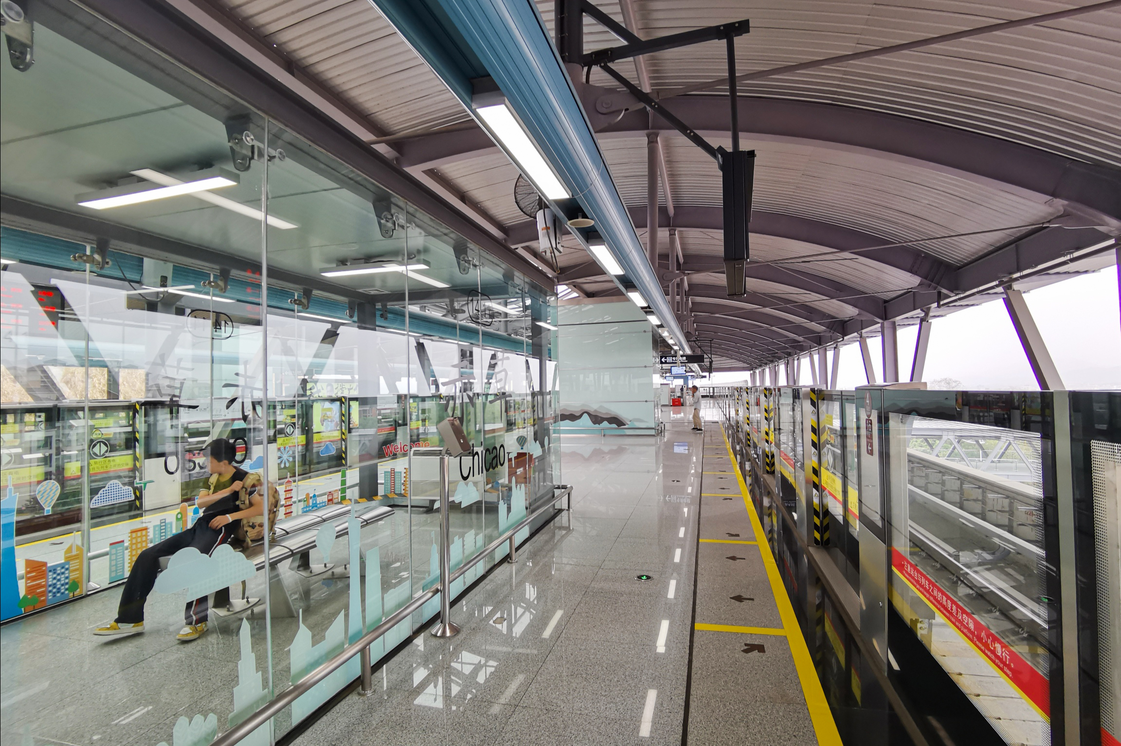 广州地铁赤草站